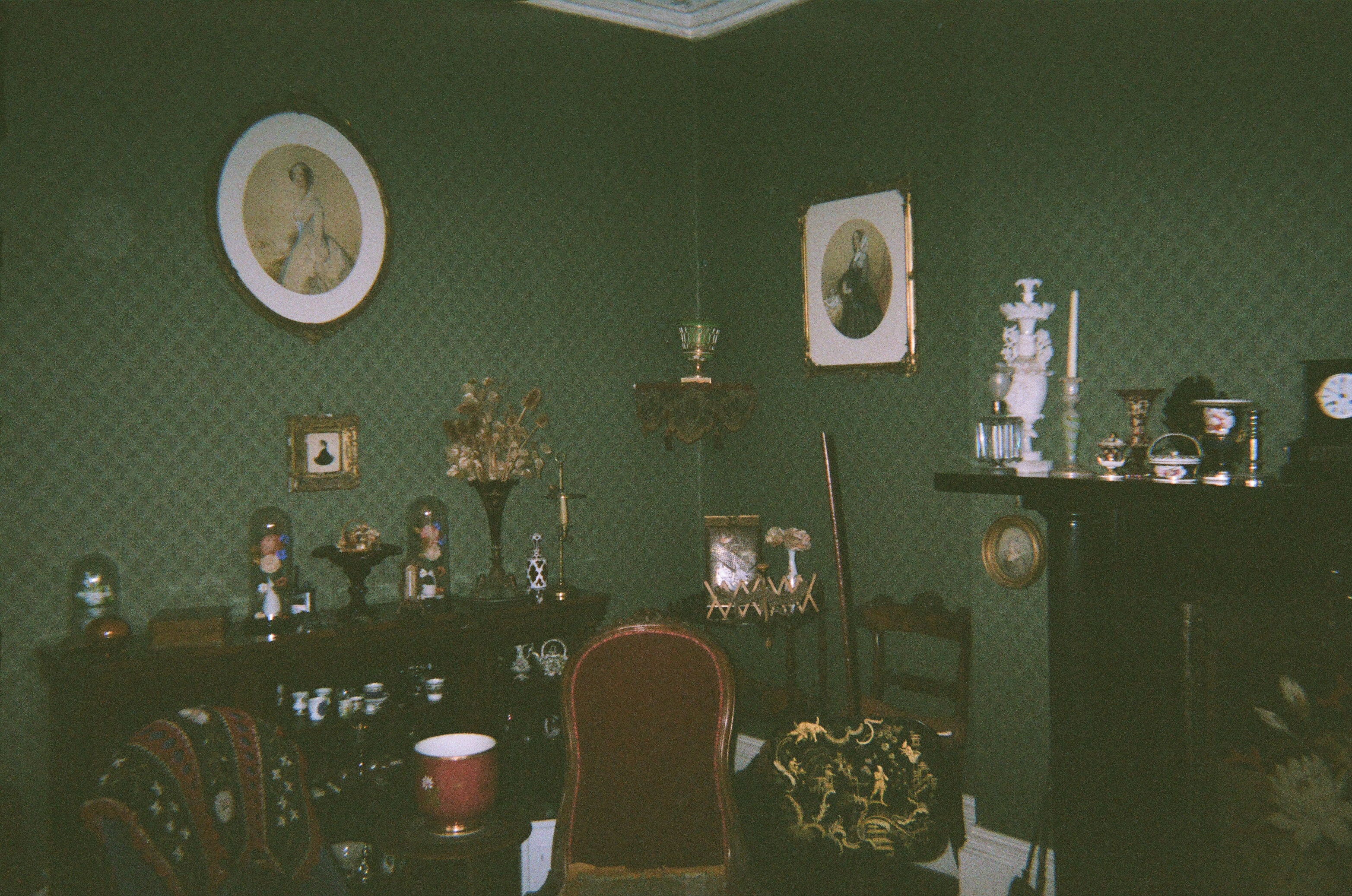 The sitting room at the Grove Museum in Ramsey, Isle of Man